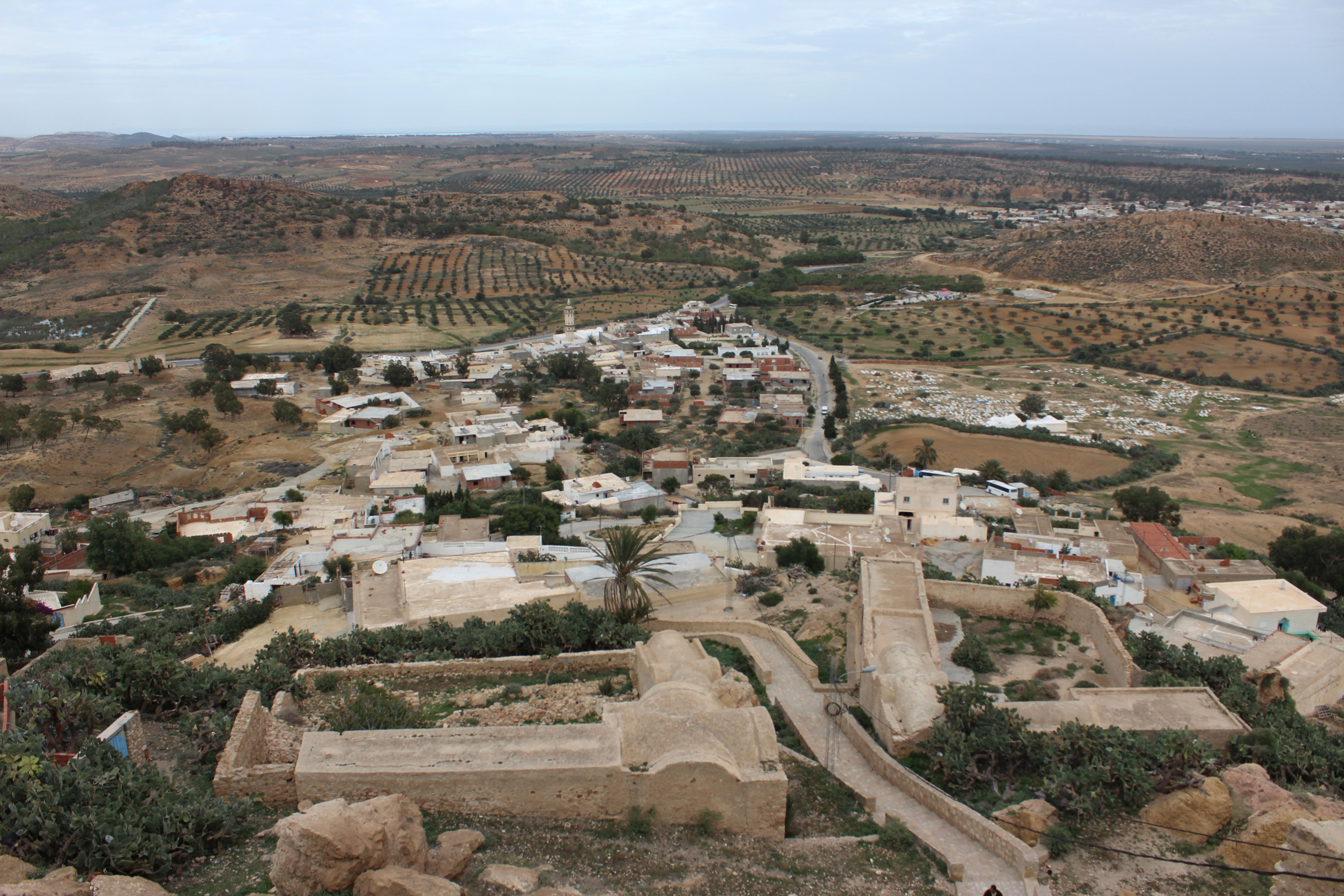 picture showing takrouna .